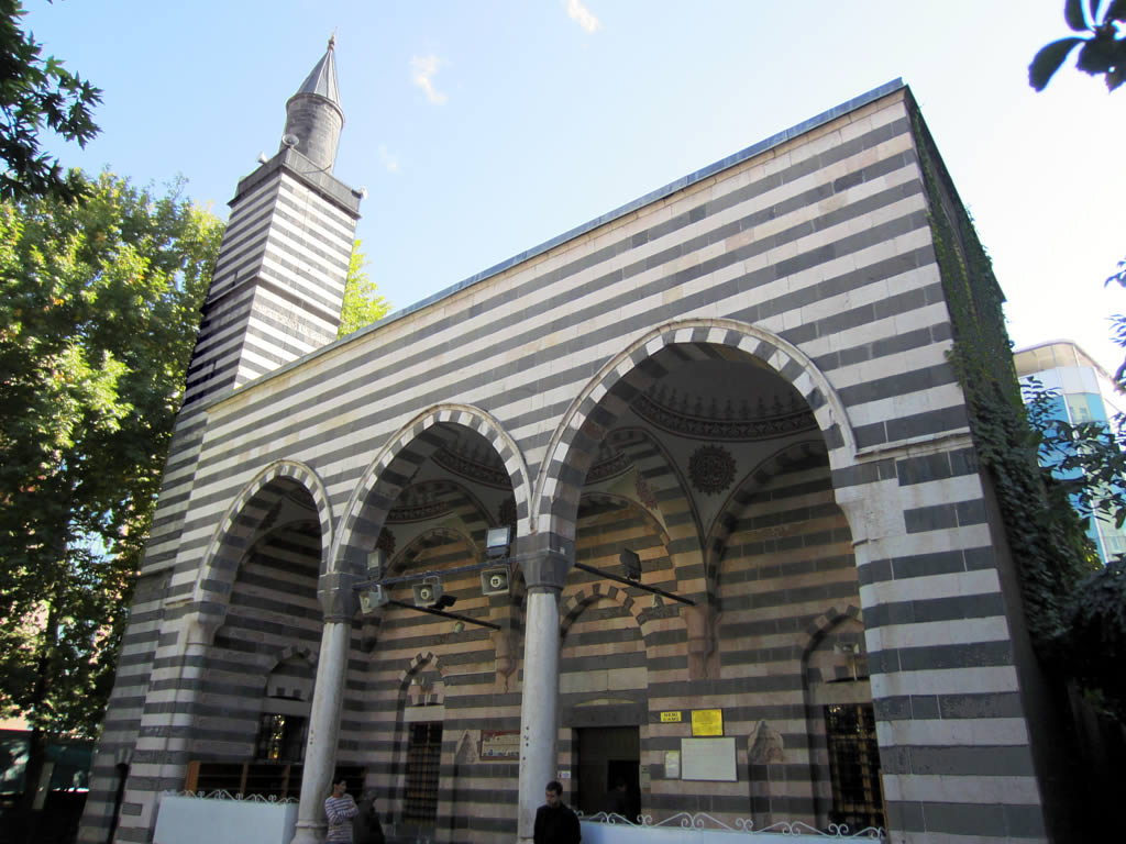 Nebi Mosque (1530) stands near a busy crossroads in the hotel district of Diyarbakir.